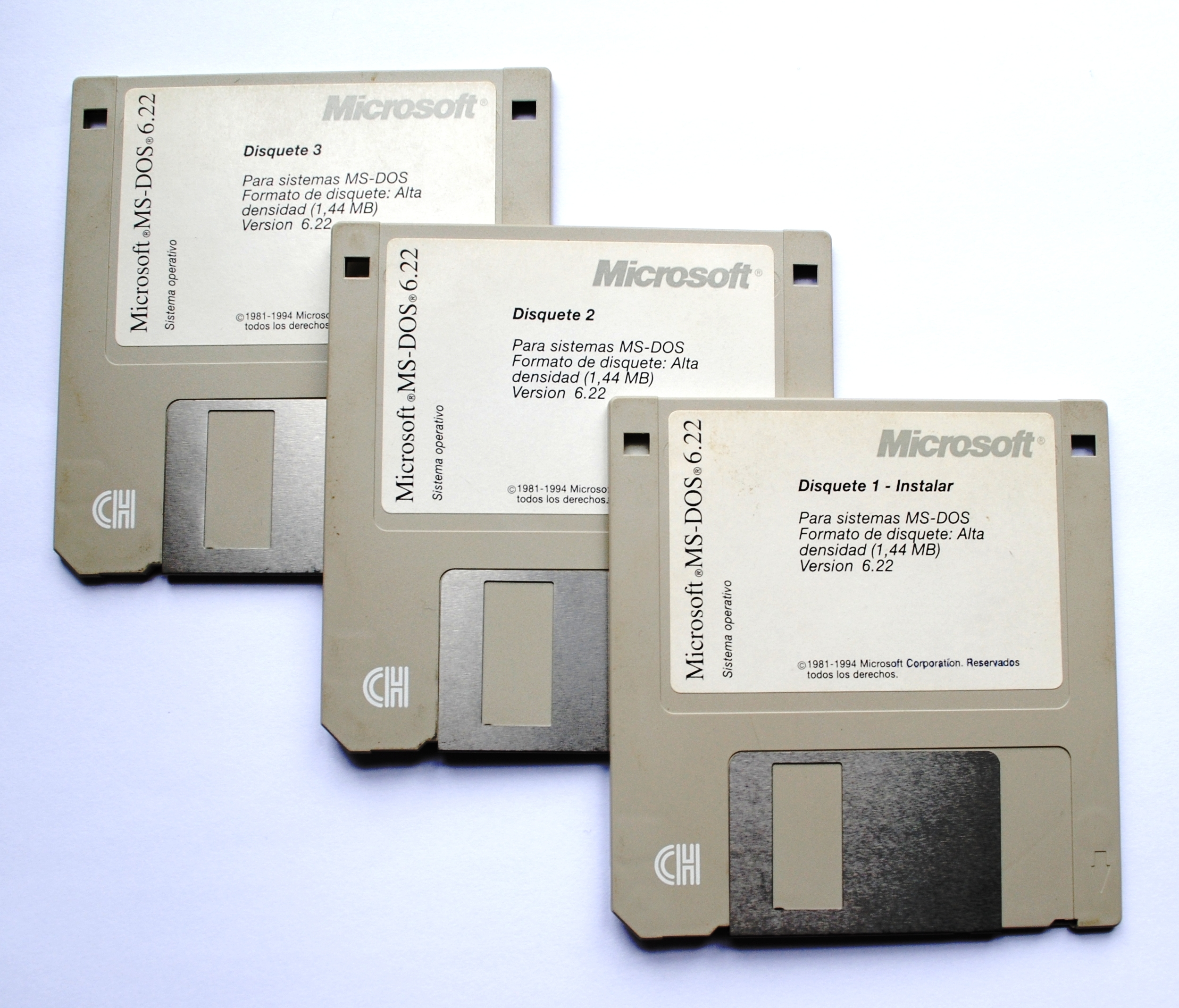 3 floppy disks of MS-DOS 6.22.